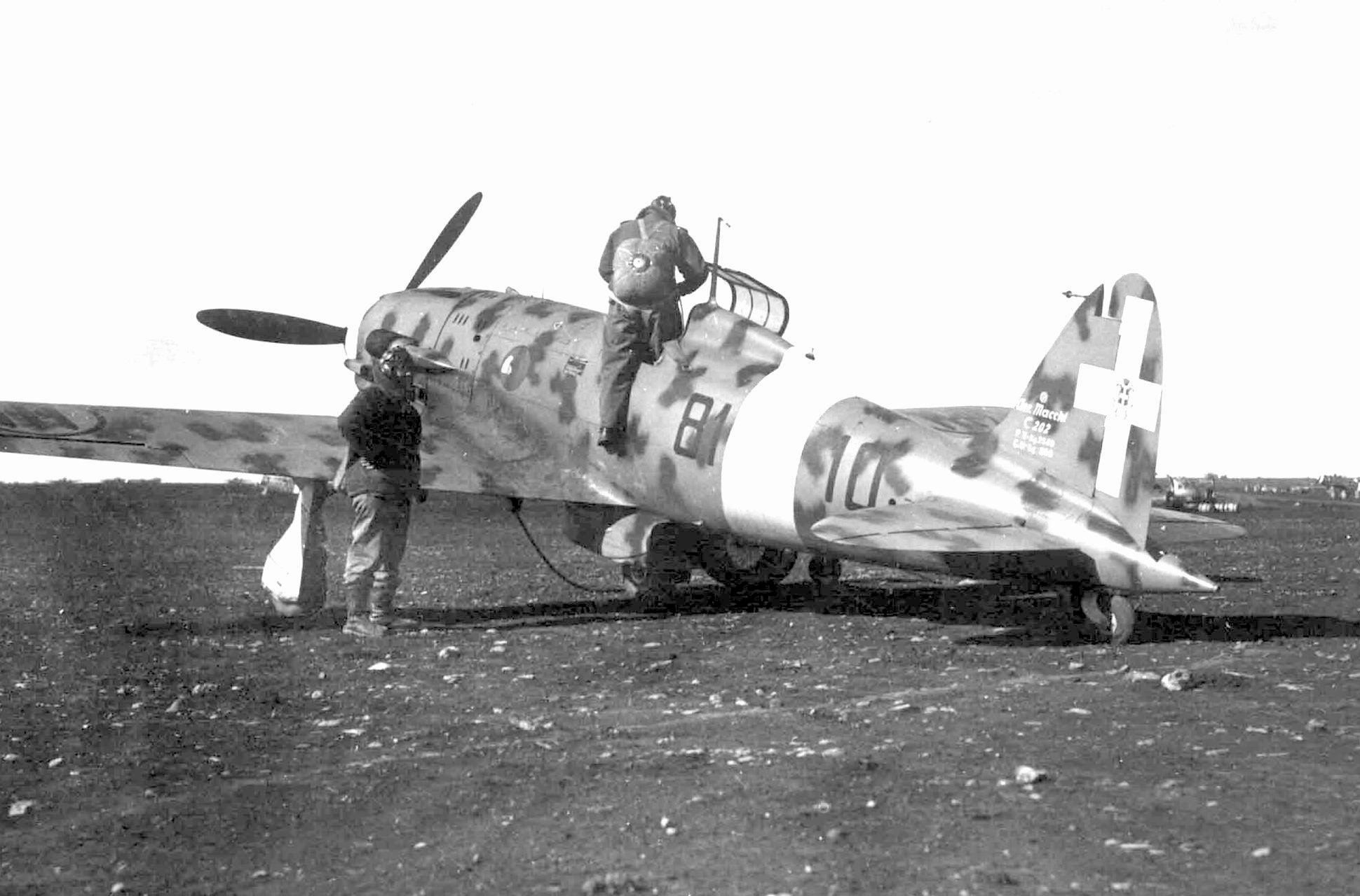 An Italian pilot about to enter into a Macci 202 during the Battle of Mareth, North Africa, (March 1943).